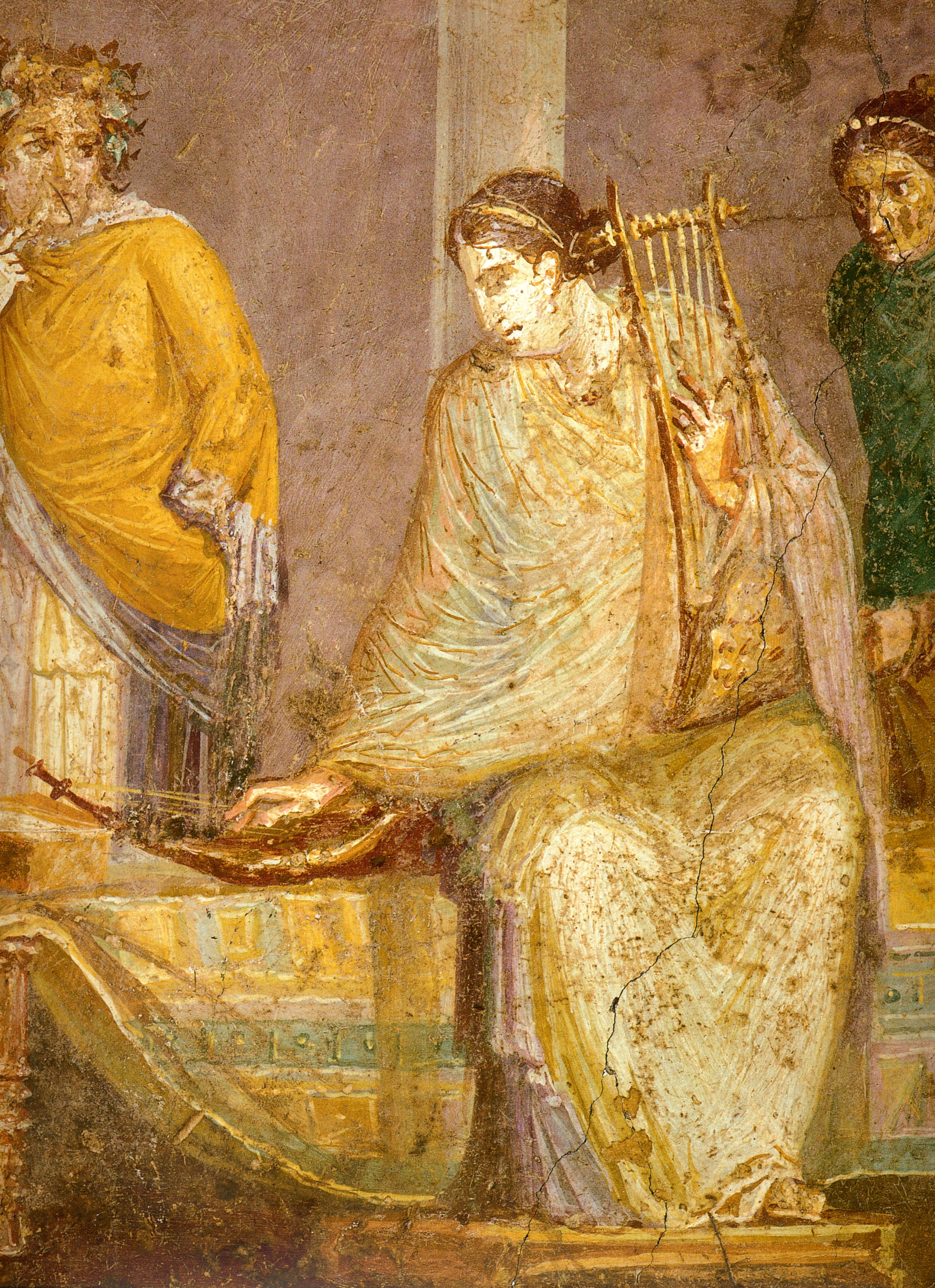 Musician holding a cithara in her left and tuning a small harp with the right. Roman fresco from Pompeii. Museo Archeologico Nazionale (Naples)